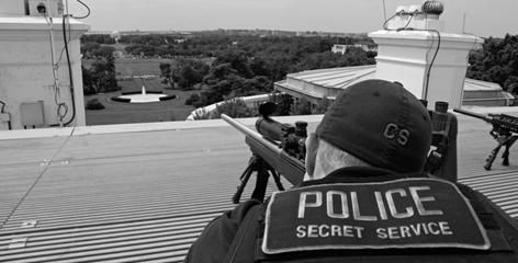 Secret Service agents positioned atop the roof of the White House.